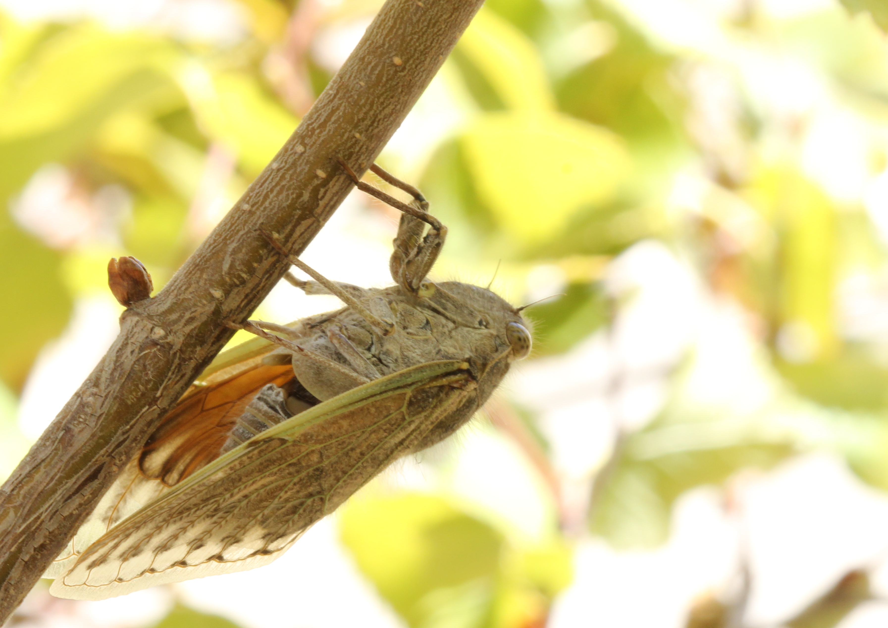 Probably Platypleura capensis. This male is singing at full volume with his opercula raised to expose the tymbals